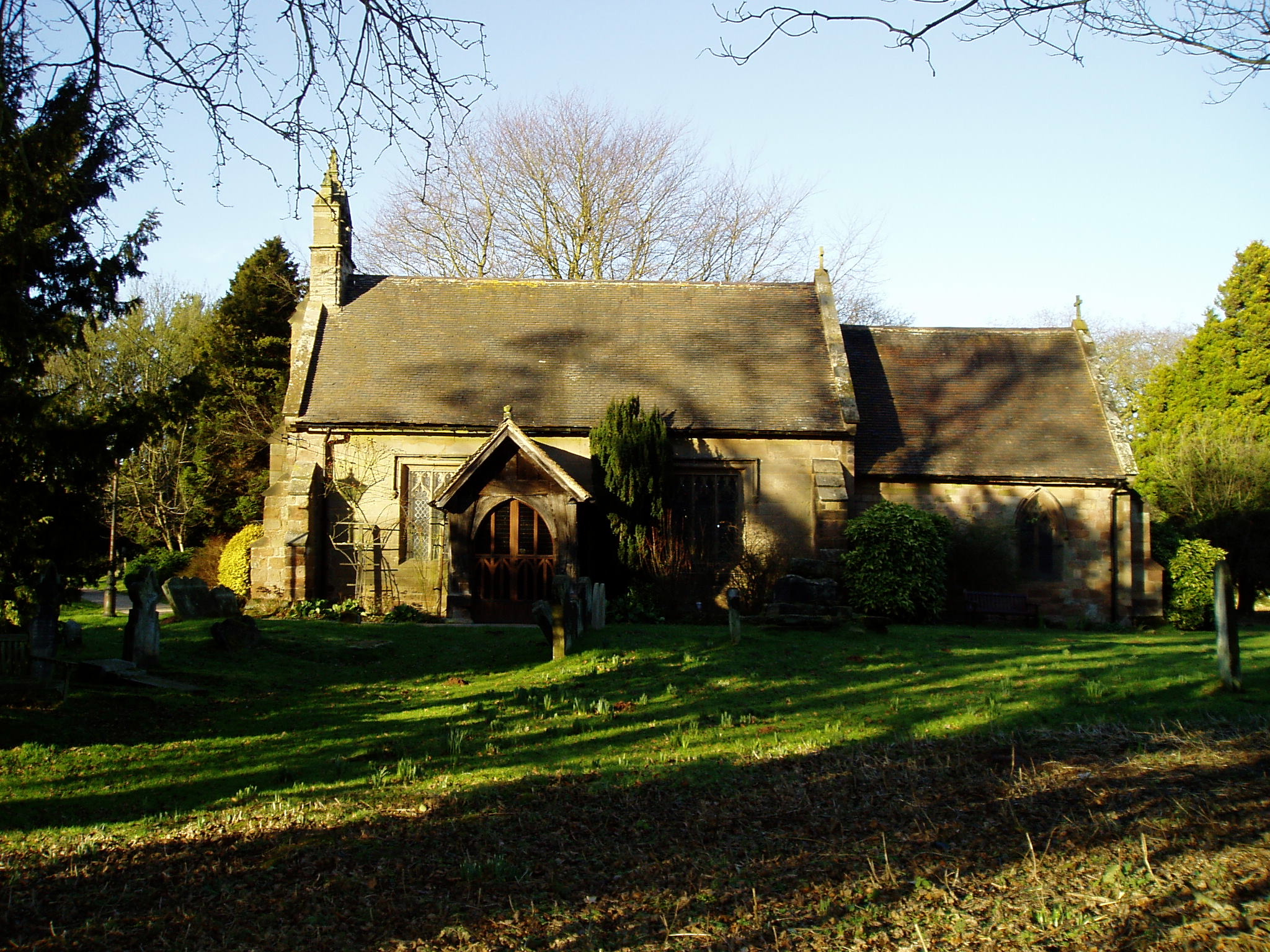 Grade II*